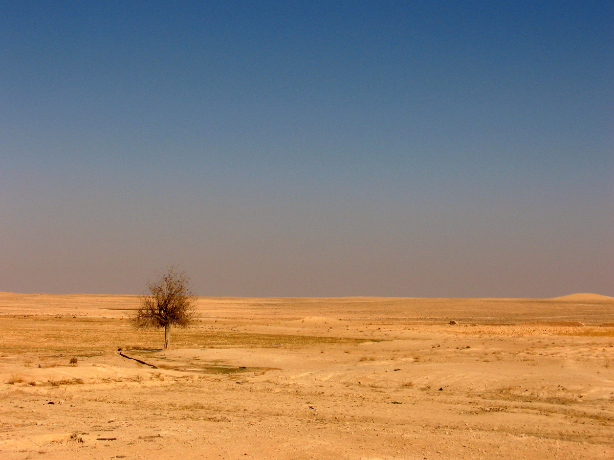 three in the desert